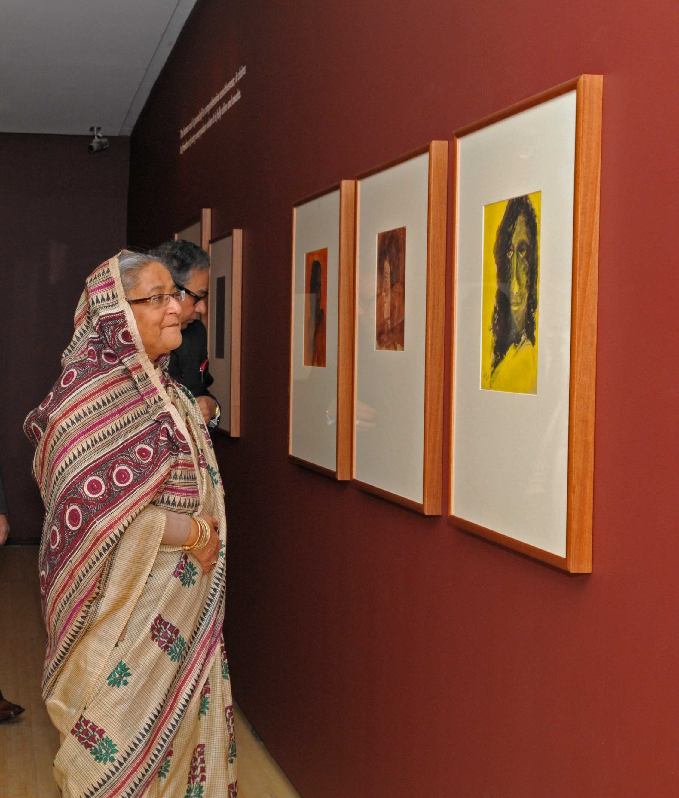 Sheikh Hasina, the Prime Minister of Bangladesh observes Tagore's paintiings at the Asia Society